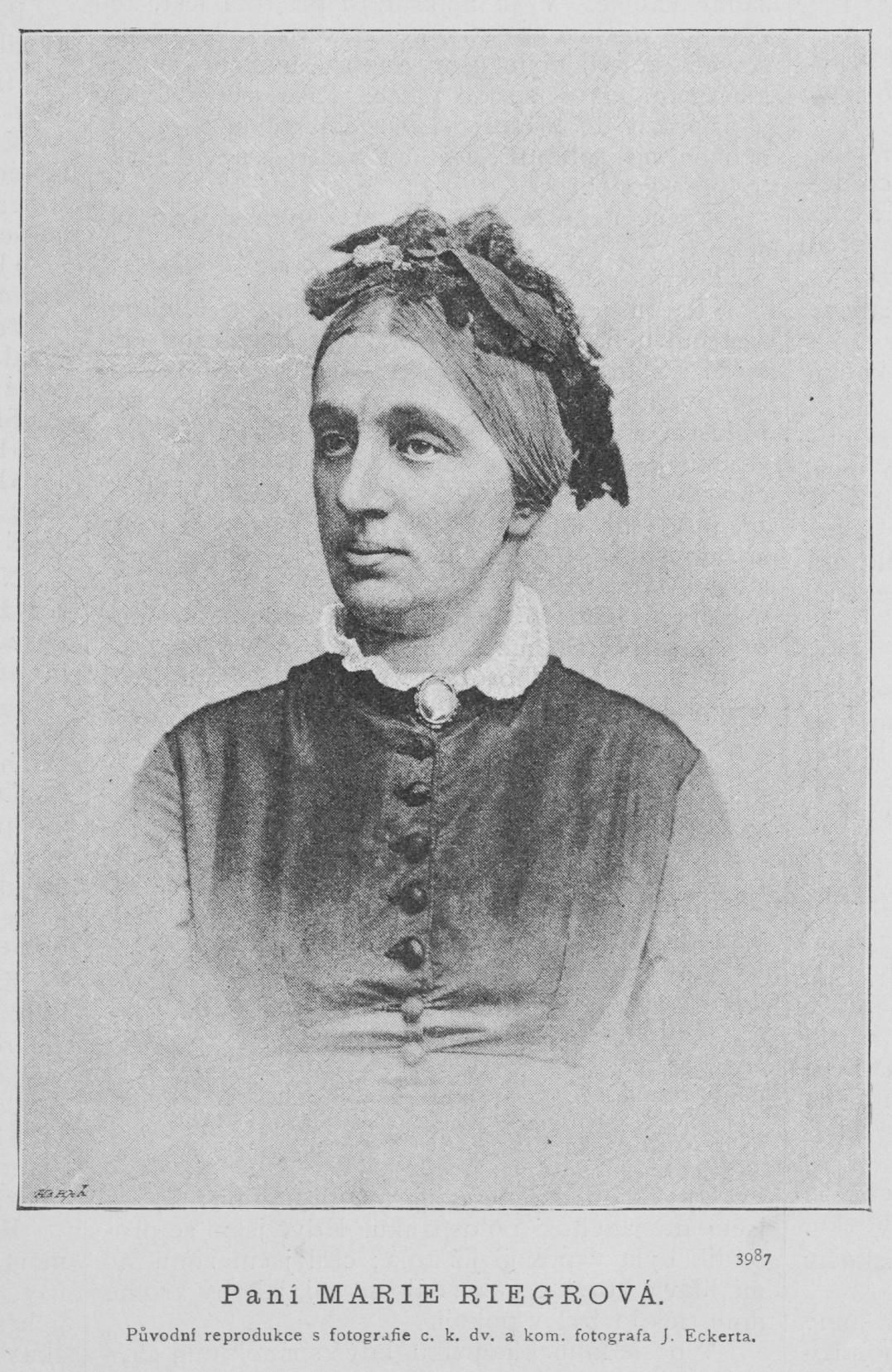 Portrait of Marie Riegrová-Palacká (1833 - 1891), Czech philanthropist, wife of František Ladislav Rieger.